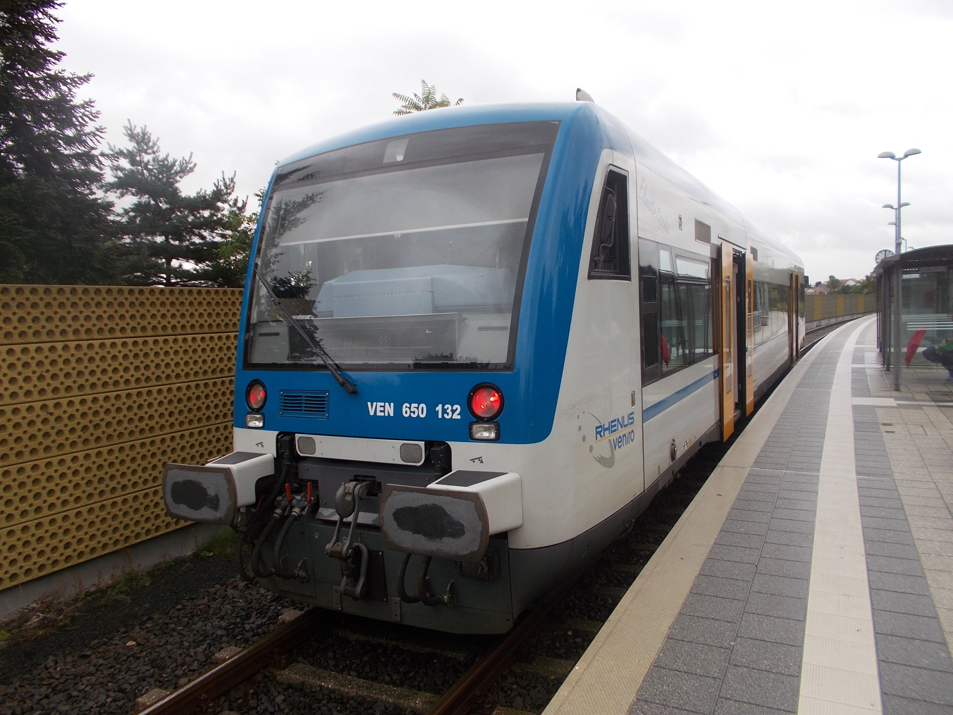 Bahnhof Kirchheimbolanden